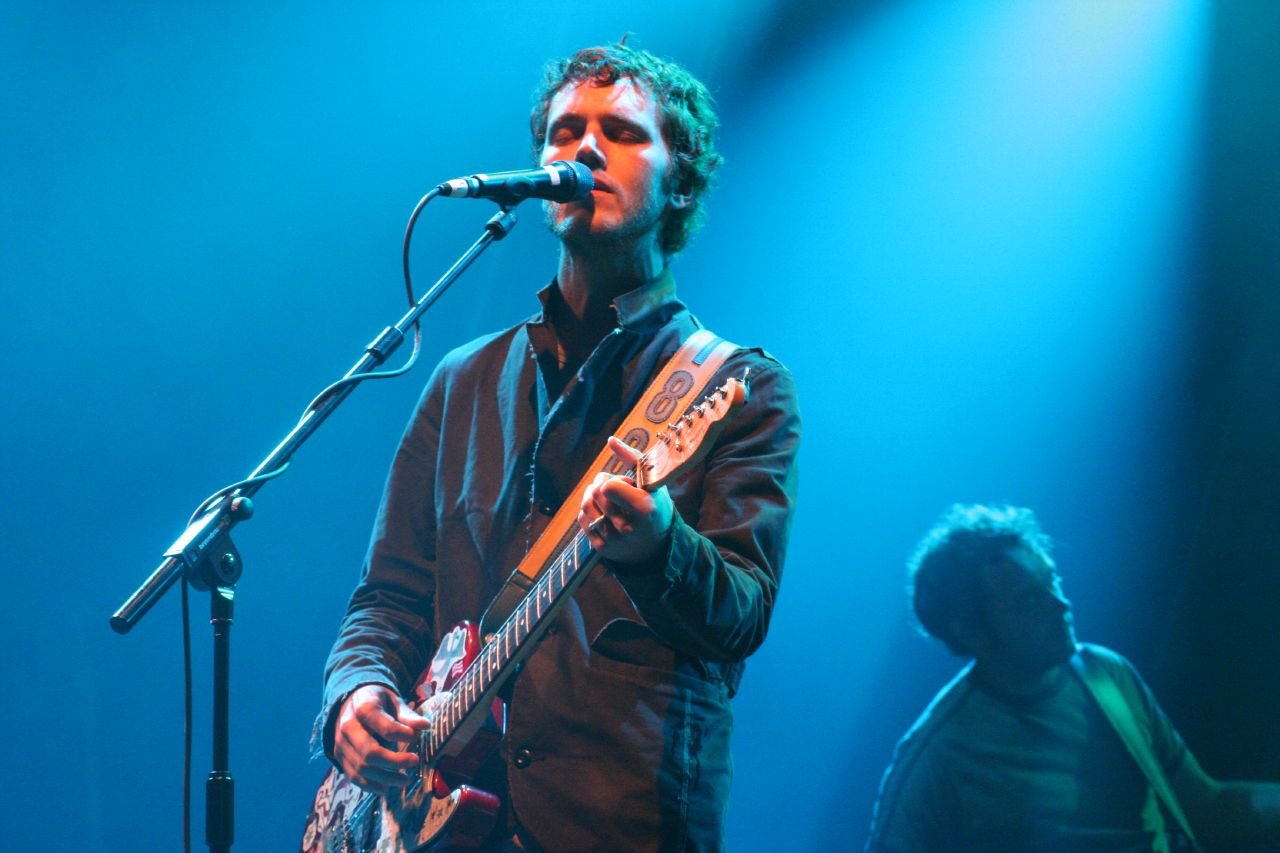 Ian Ball, Gomez Beautiful Days Festival, Devon, Main Stage, 18 August 2006